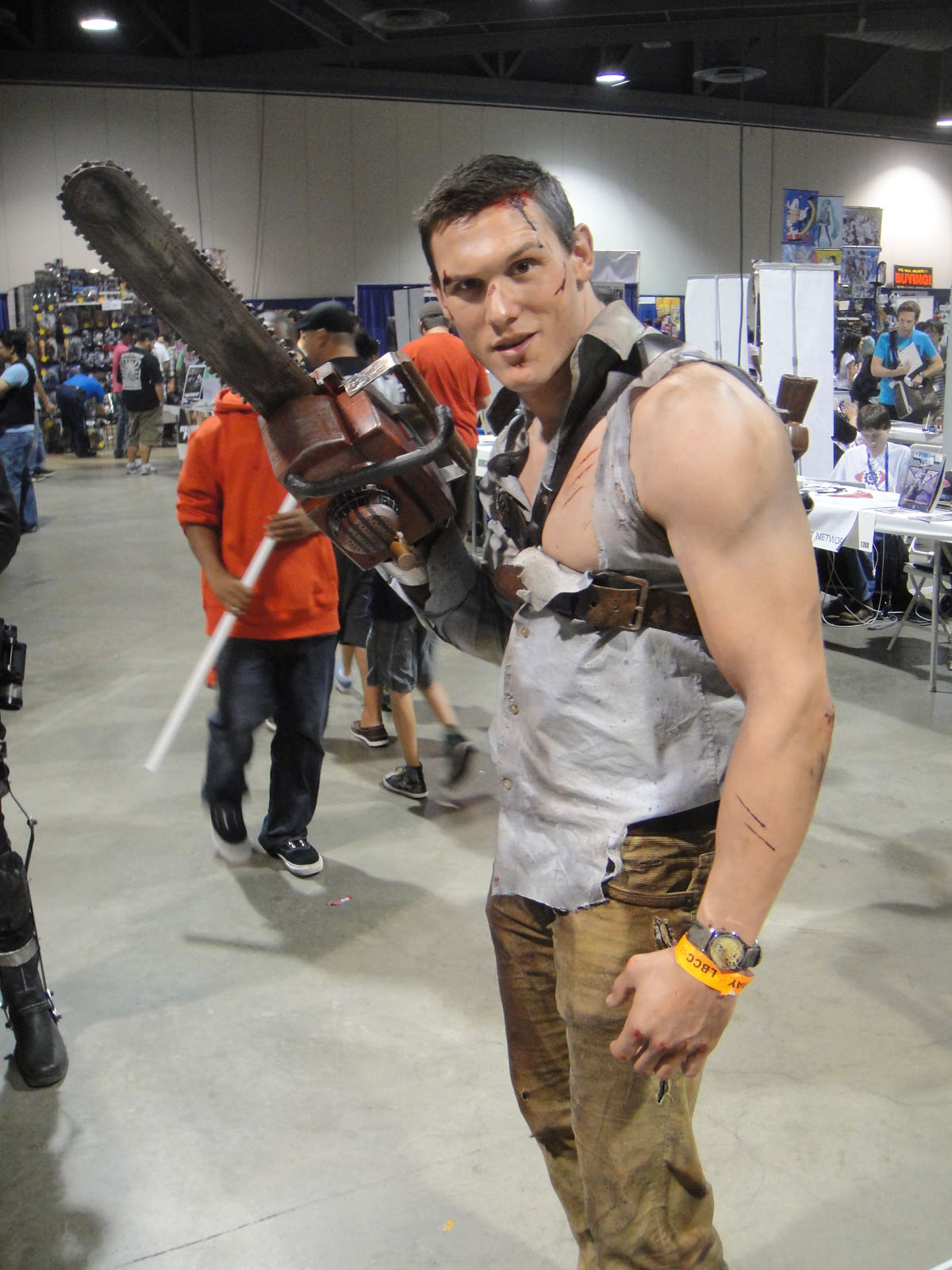 photo 2011 Pop Culture Geek taken by Doug Kline If you're interested in higher resolution versions of my images, contact me via my profile page.